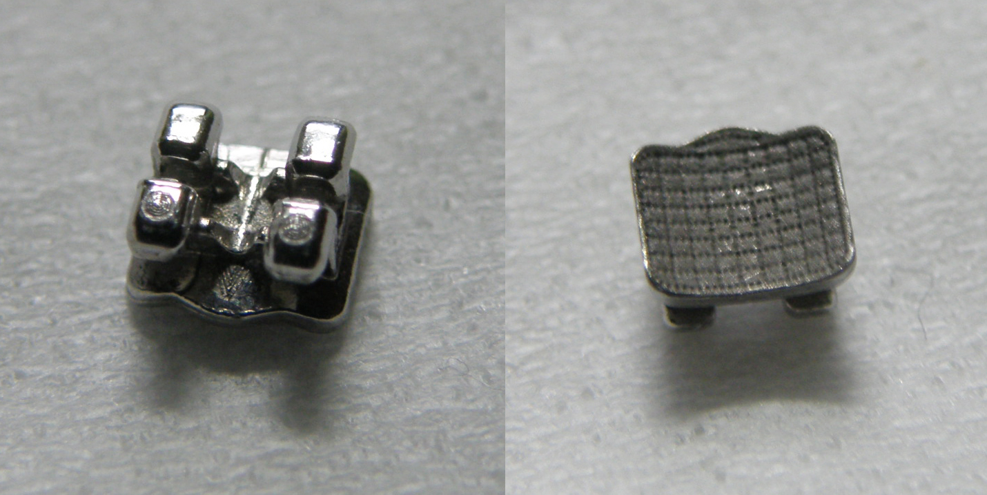 Front and back side of a part of an orthobraces. This little part is been glued usually on front side of a tooth. In the middle is space for a metal wire.